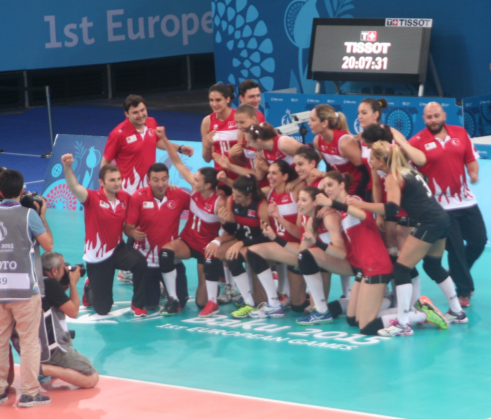 Turkey women's volleyball are the winners of the 2015 European Games